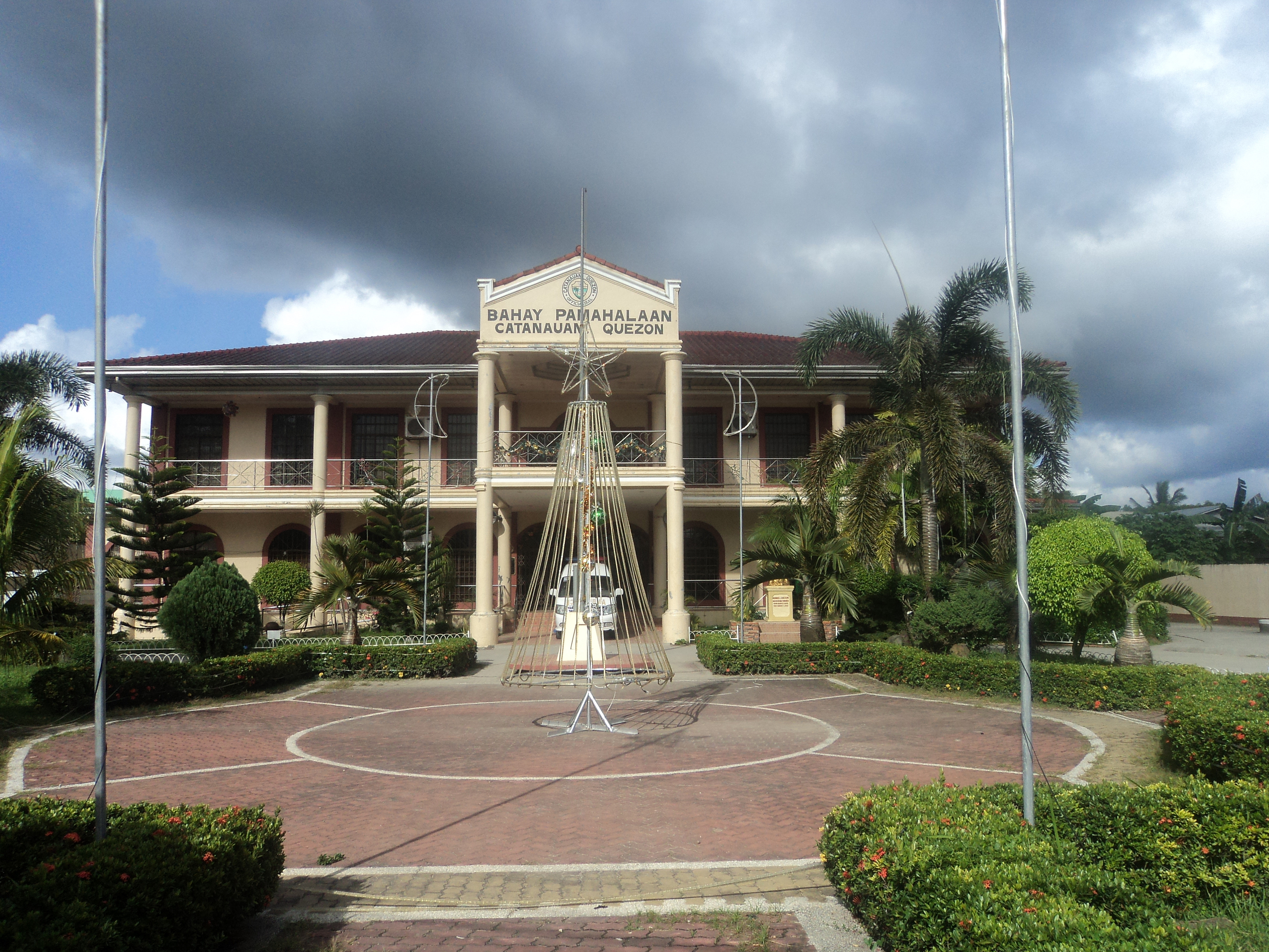 Town Hall of Catanauan, Quezon